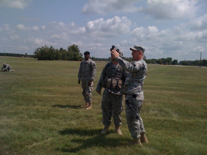 A 25U Noncommissioned Officer instructor Soldiers at Fort Drum, NY on the proper setup of the OE-254/GRC antenna group